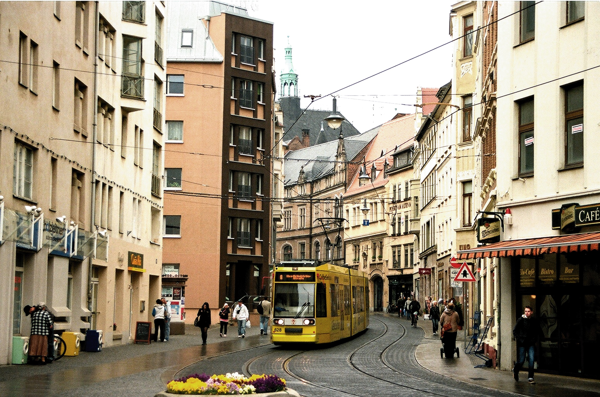 Halle (Saale), the Schmeerstraße